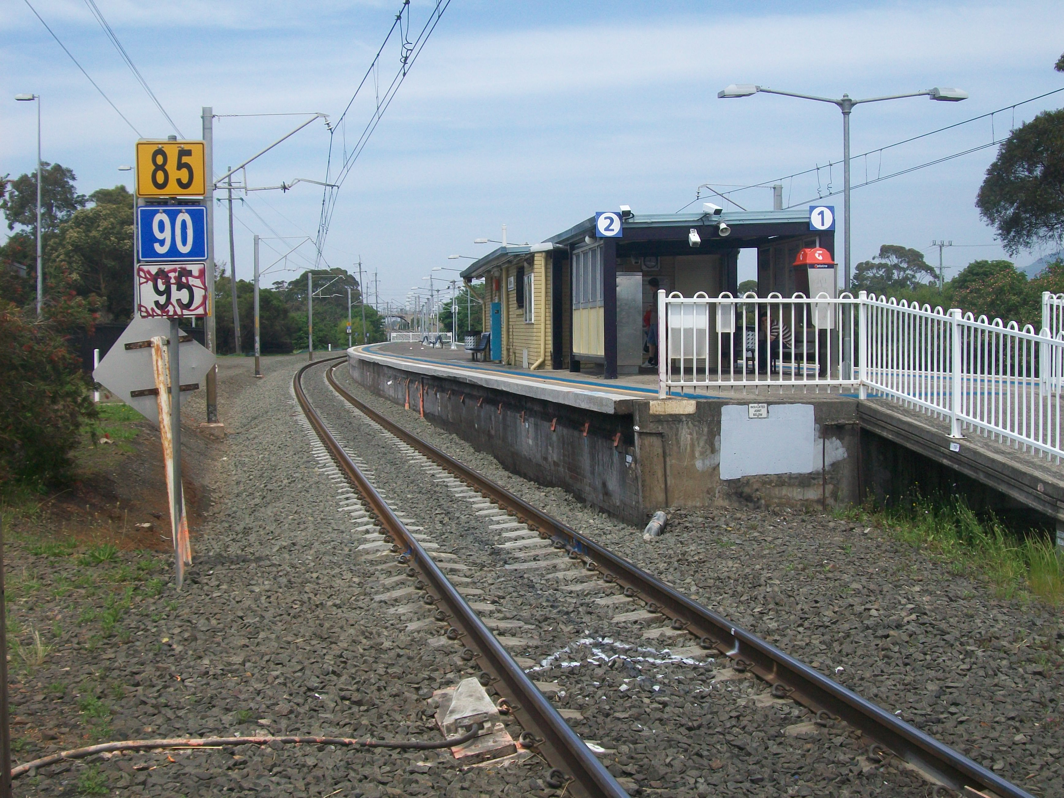 Belambi Railway station looking from rail crossing